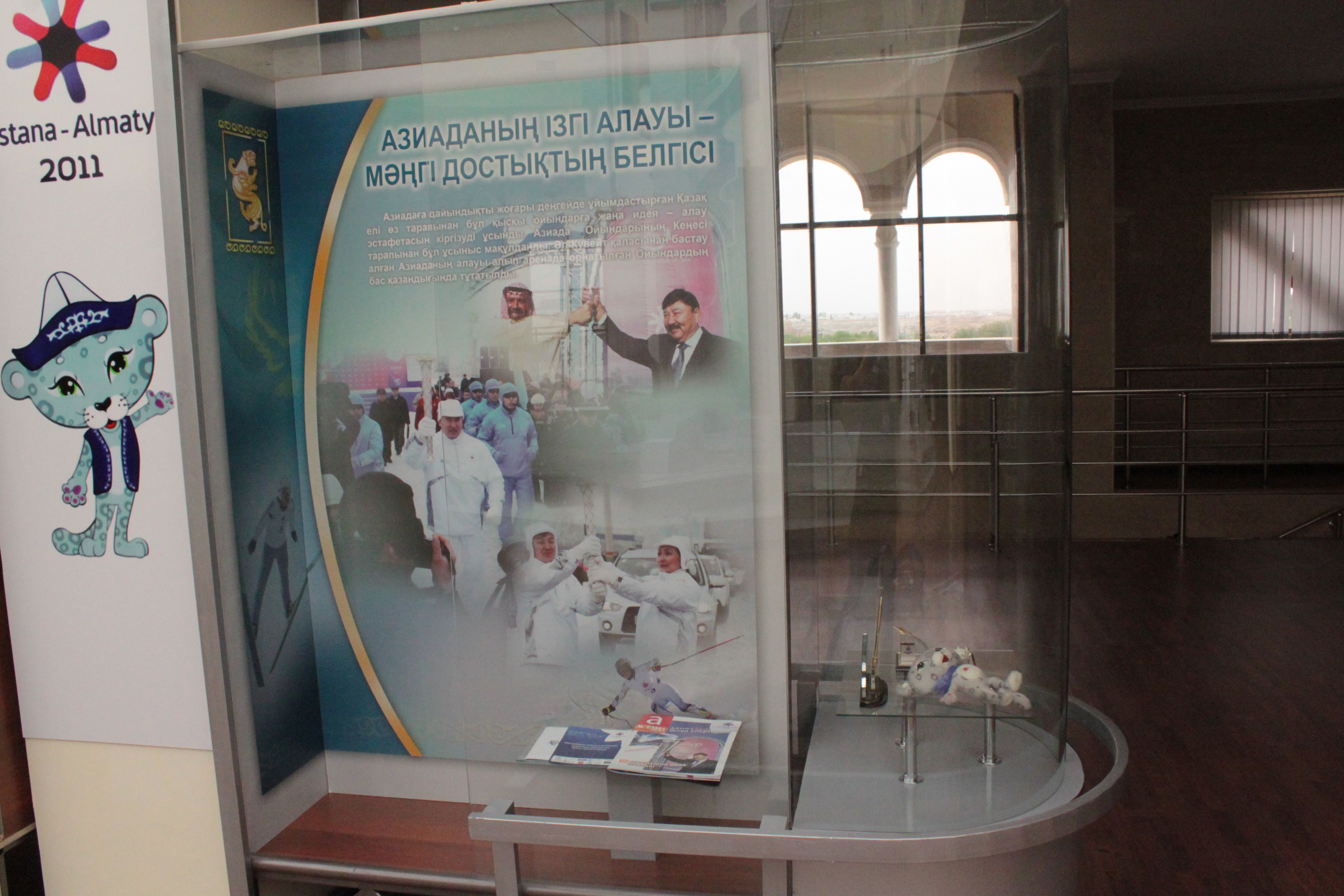 Азияда